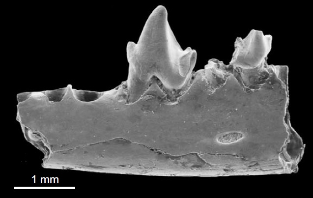 SEM image of Bustylus marandati (Crochet and Sigé, 1983) from the early Palaeocene of Hainin (Belgium). Left jaw fragment with p4, talonid of m1 and alveoli of p3, in labial view.